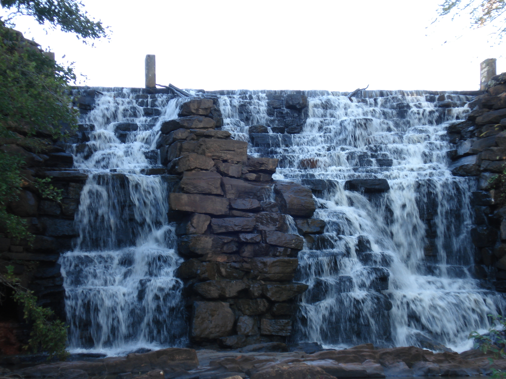 A picture of Chewacla Falls at Chewacla State Park in Auburn, Alabama, USA. Taken in October of 2006.